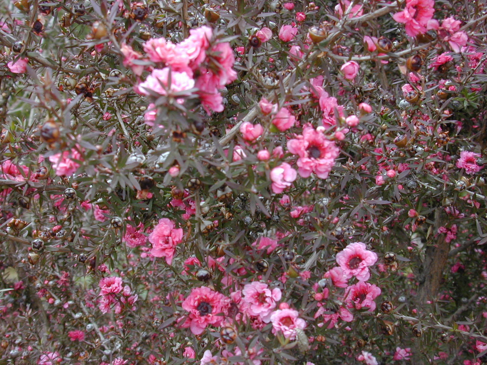 Leptospermum scoparium (flowers). Location: Maui, Kula